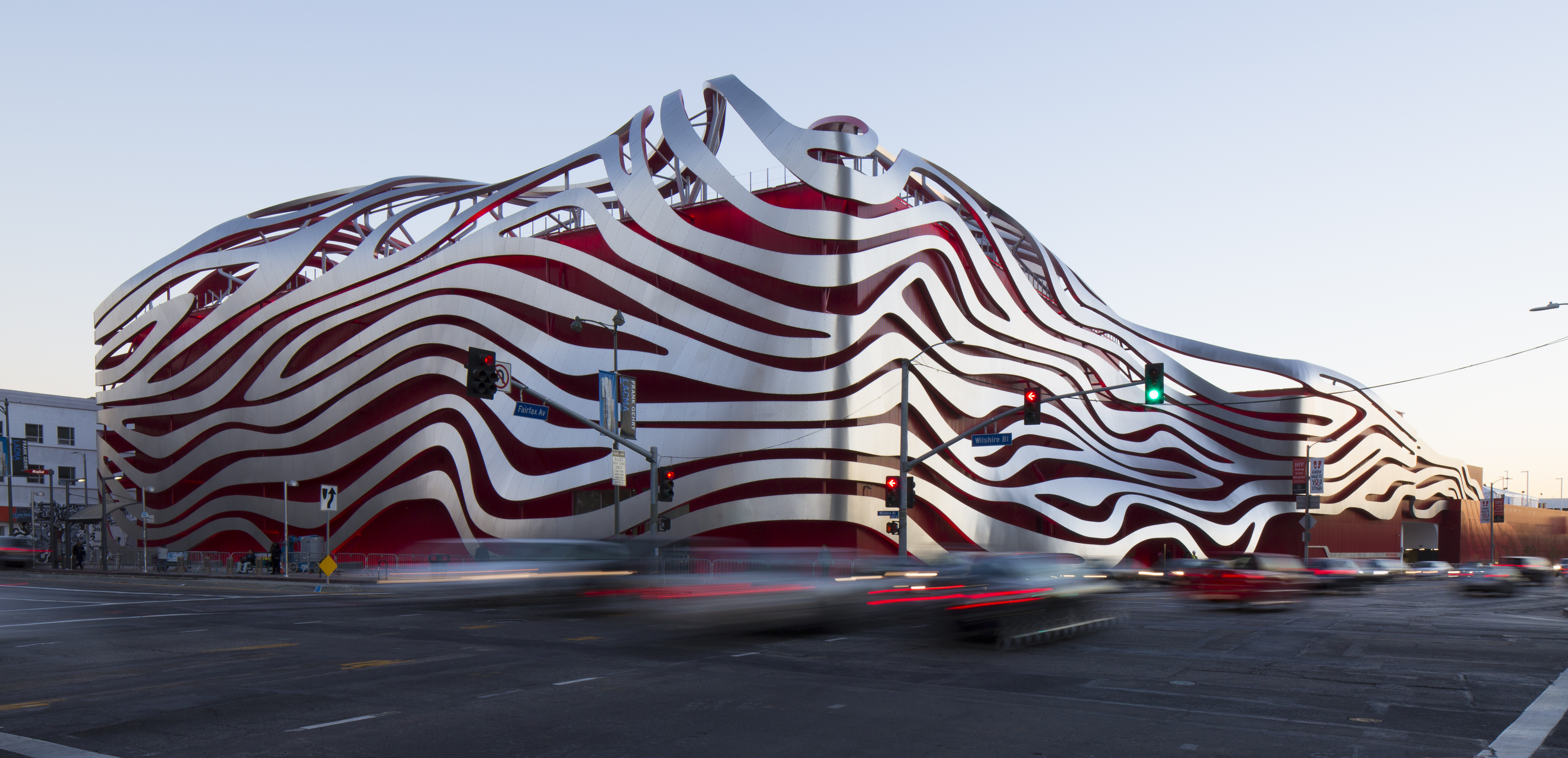 Photo by David Zaitz.